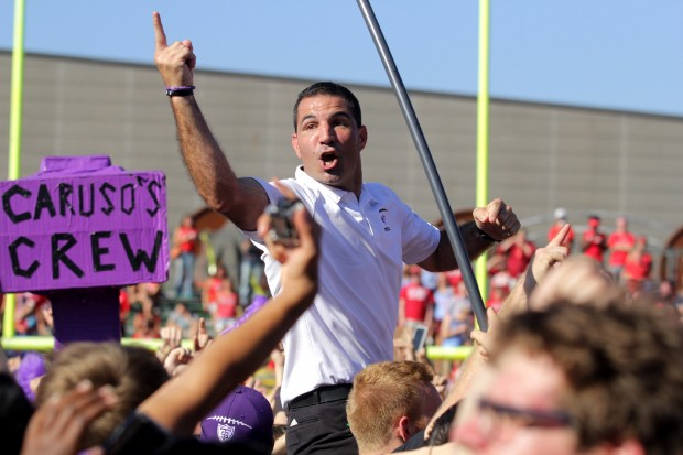 GFC SJU post game